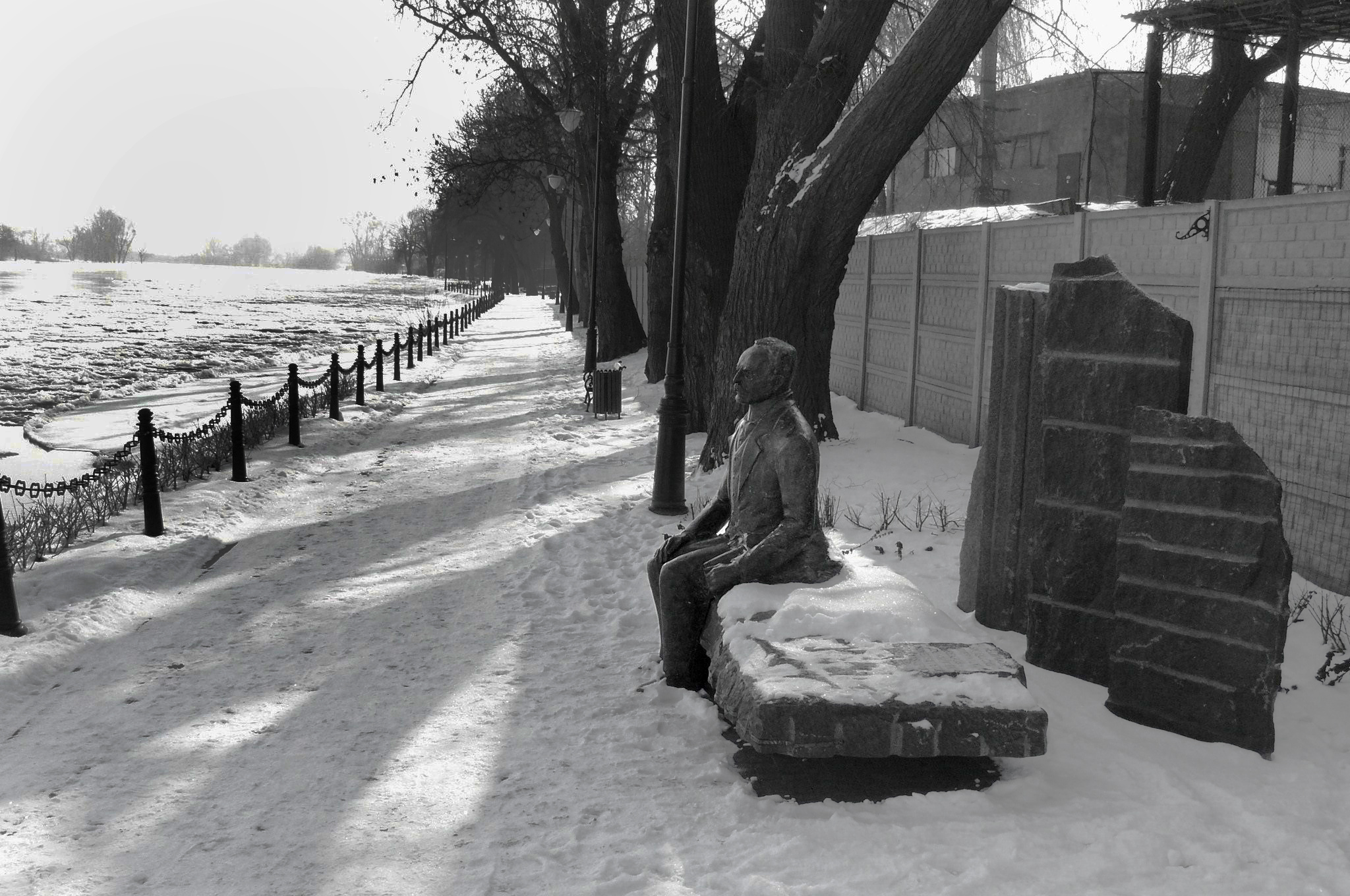 Srem - Promenada, Warta River.